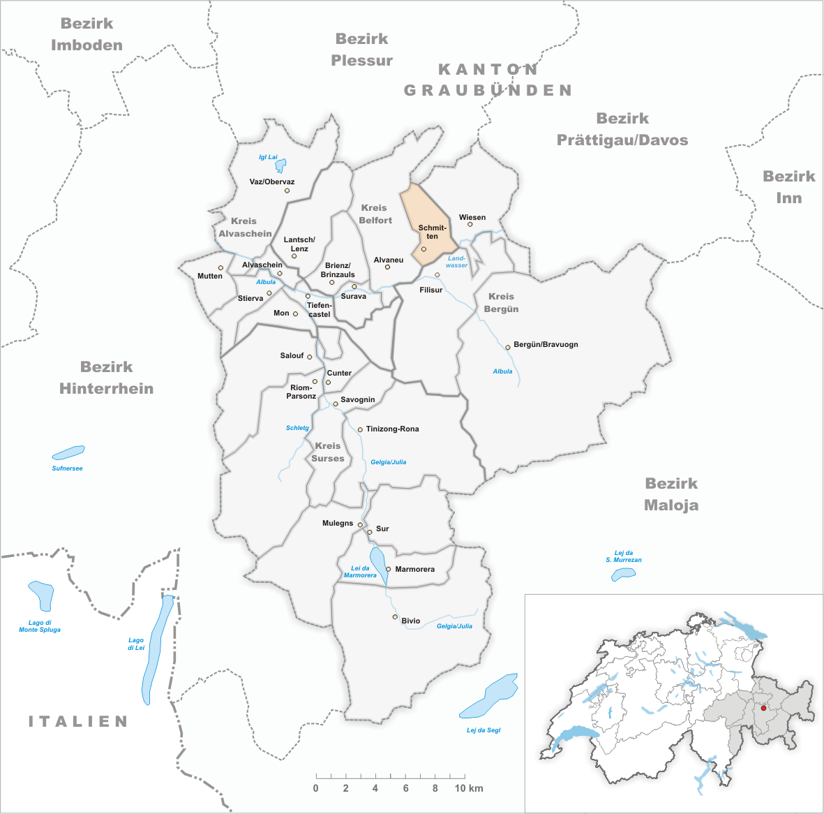 Municipality Schmitten